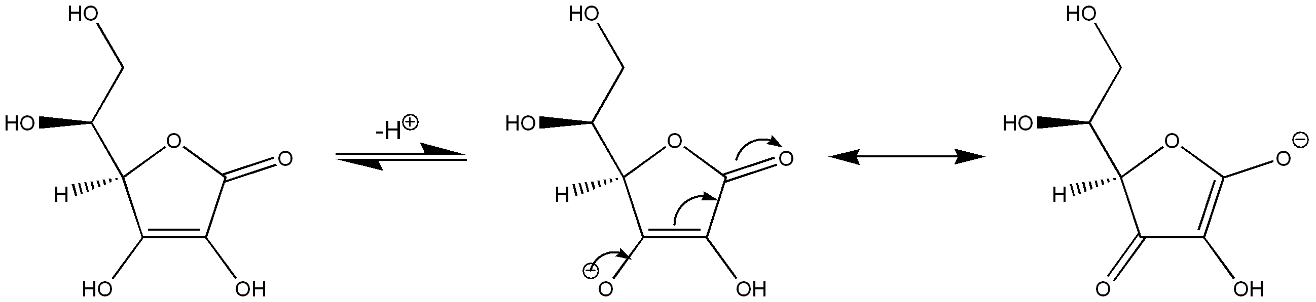 Diagram illustrating how the resonance stabilization of the conjugate base of ascorbic acid makes the hydroxyl proton more acidic than a typical hydroxyl group.